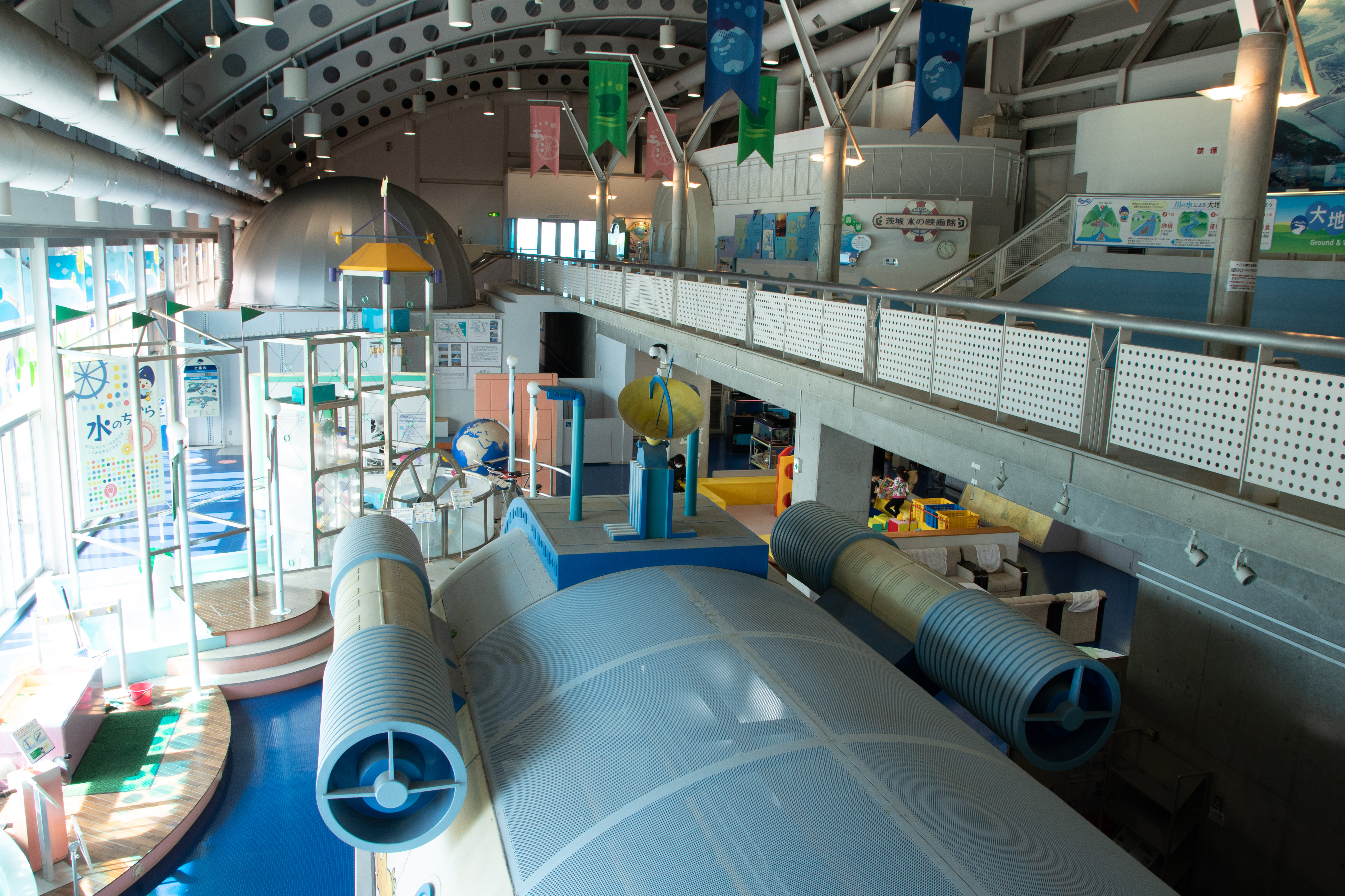 Kasumigaura Fureai Land, Namegata City, Ibaraki, Japan